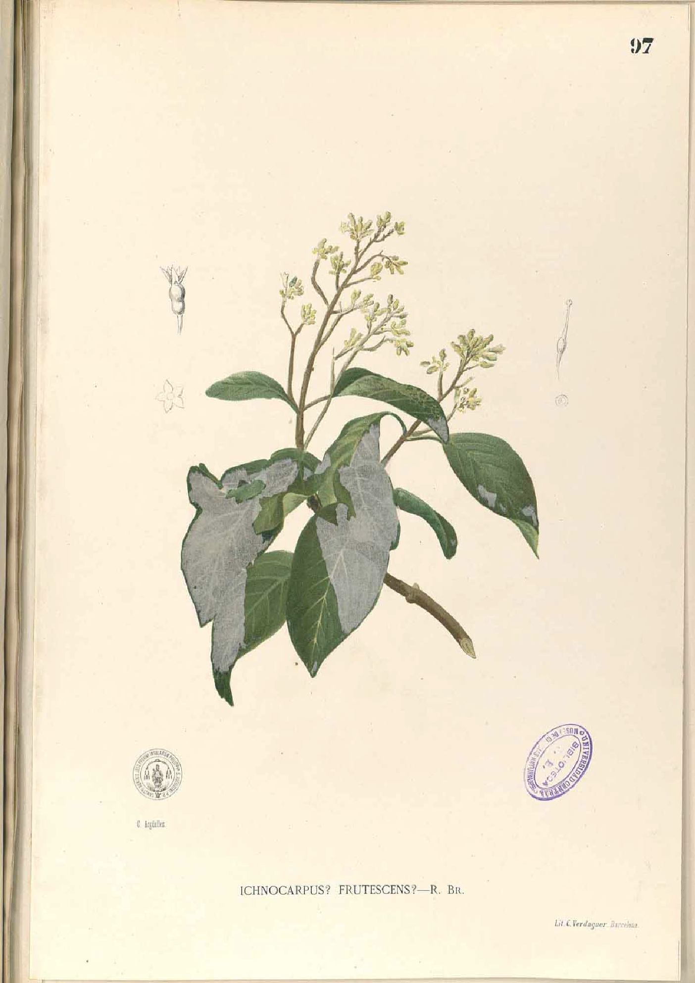 Plate from book